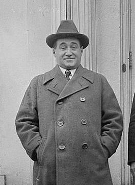 Title: Clifton McArthur, W.C. Hawley, N.J. Sumiott, 2/21/23 Abstract/medium: National Photo Company Collection (Library of Congress) Physical description: 1 negative